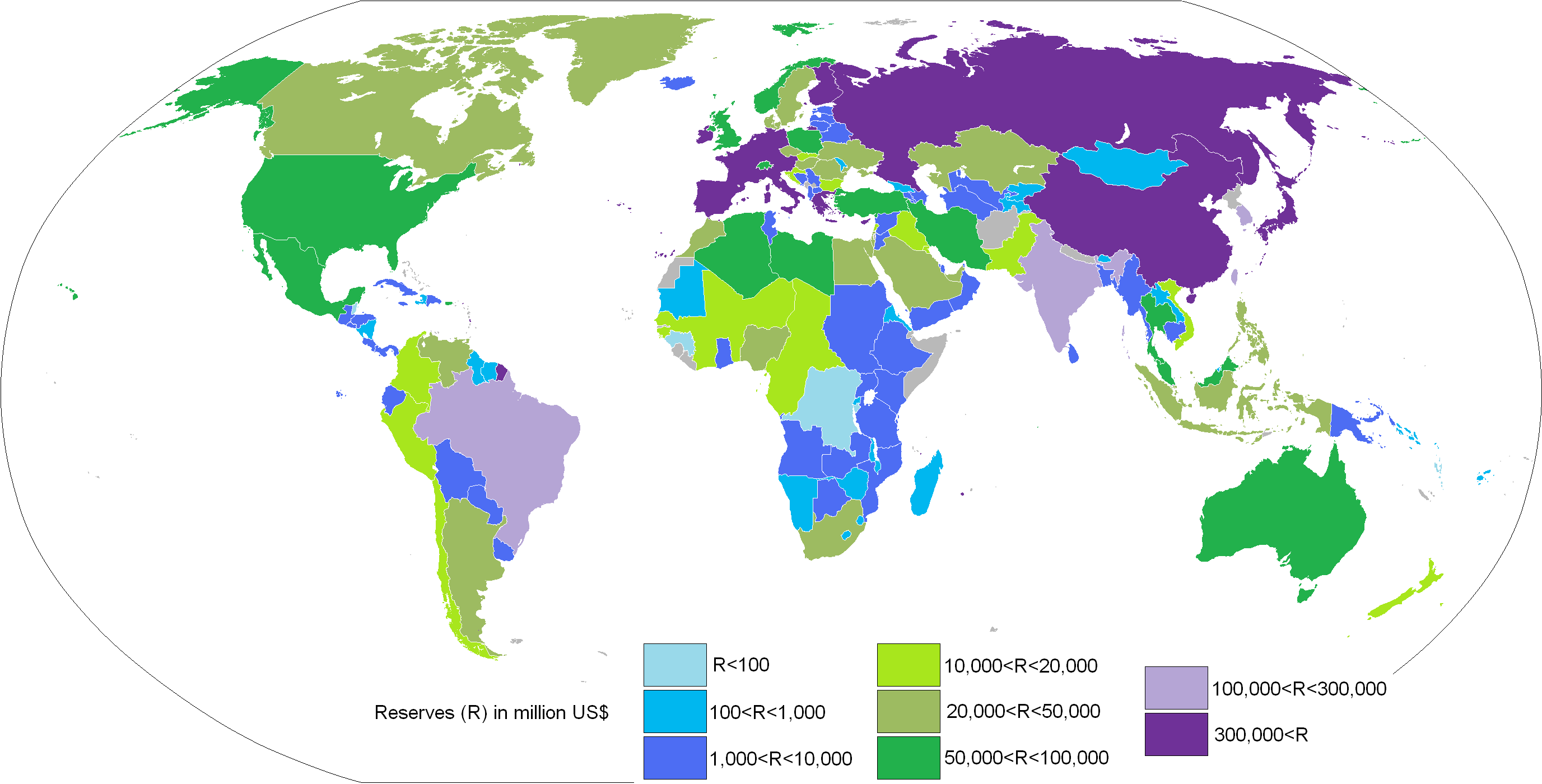 World international reserves as of June 2007. Source: International Monetary Fund, CIA world factbook and National Central Banks reports. Note: Map made in June 2007, however depending on the degree of transparency of a Central Bank, data might have been provided several months before.